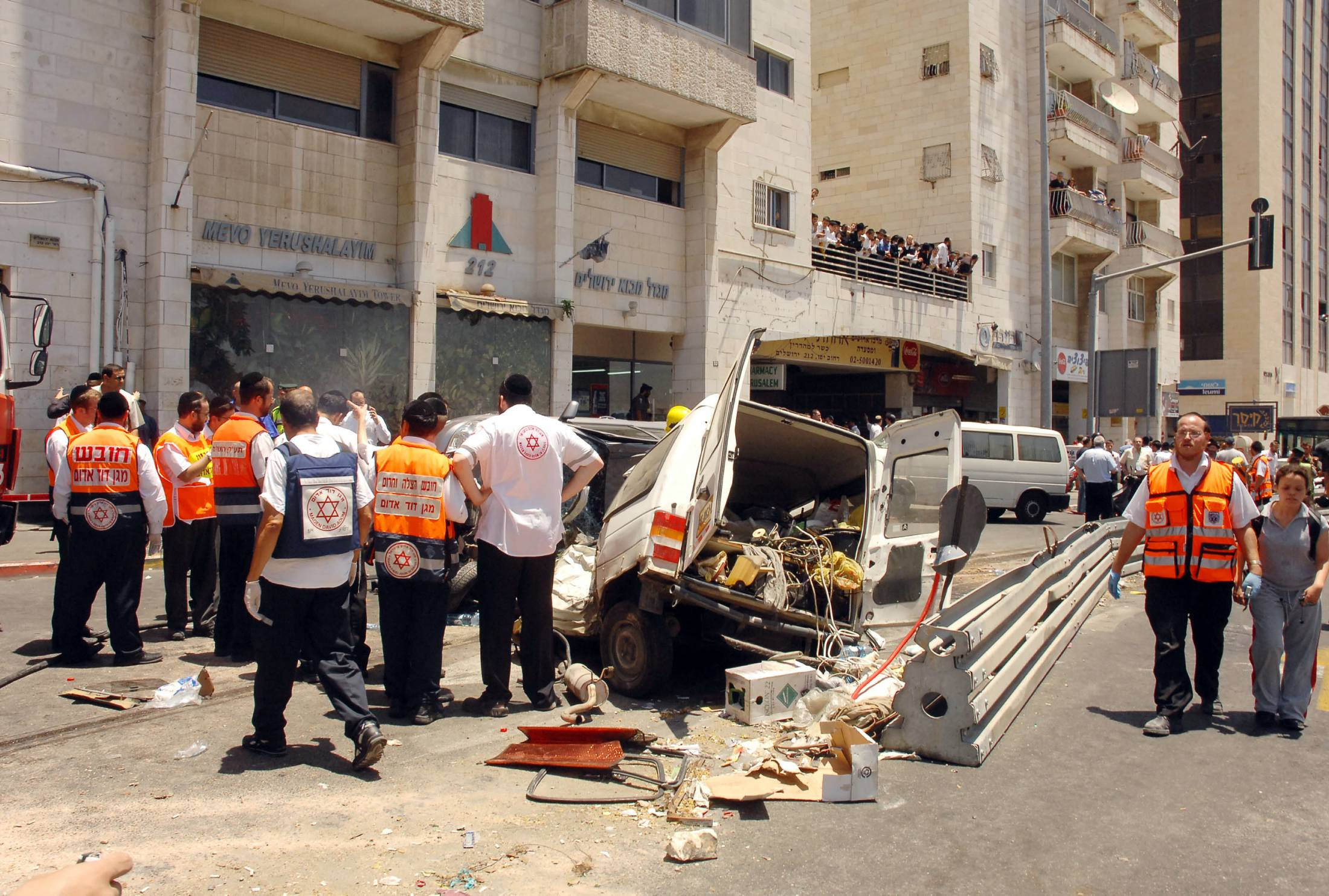 Jerusalem Bulldozer rampage It is requested, but optional, that you contact theisraelproject when you use this image.